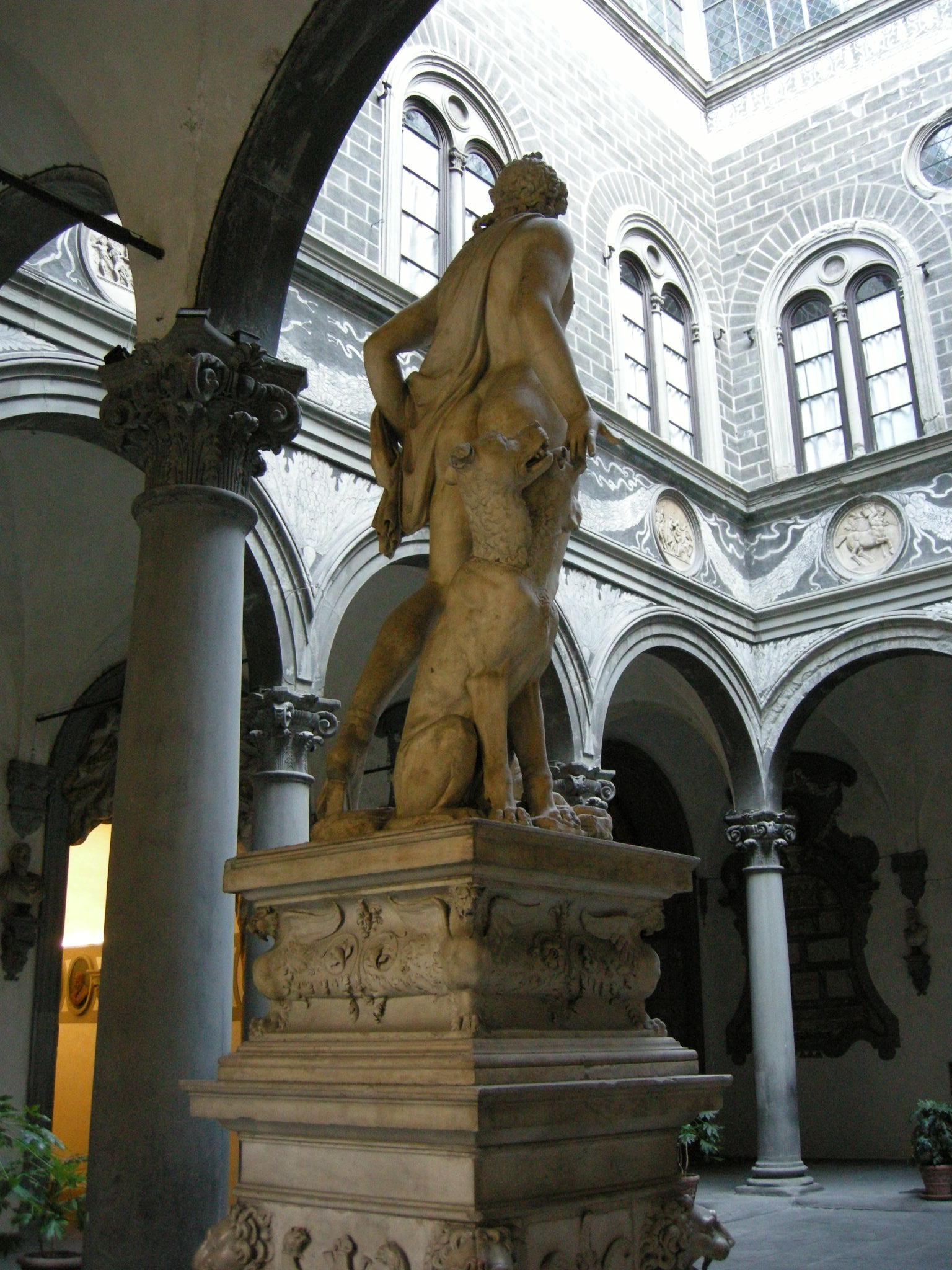 Orpheus and Cerberus by Baccio Bandinelli 01.1